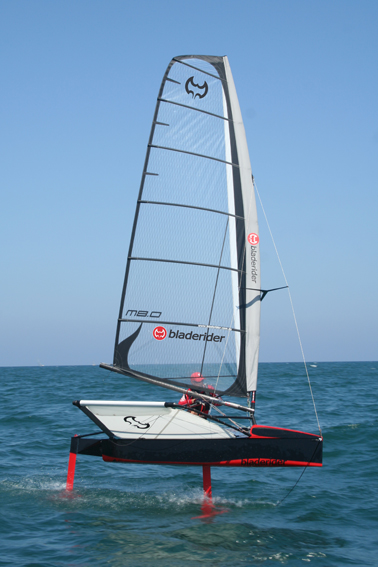 Rohan Veal sailing a Moth from manufacturer Bladerider sailing hydrofoil